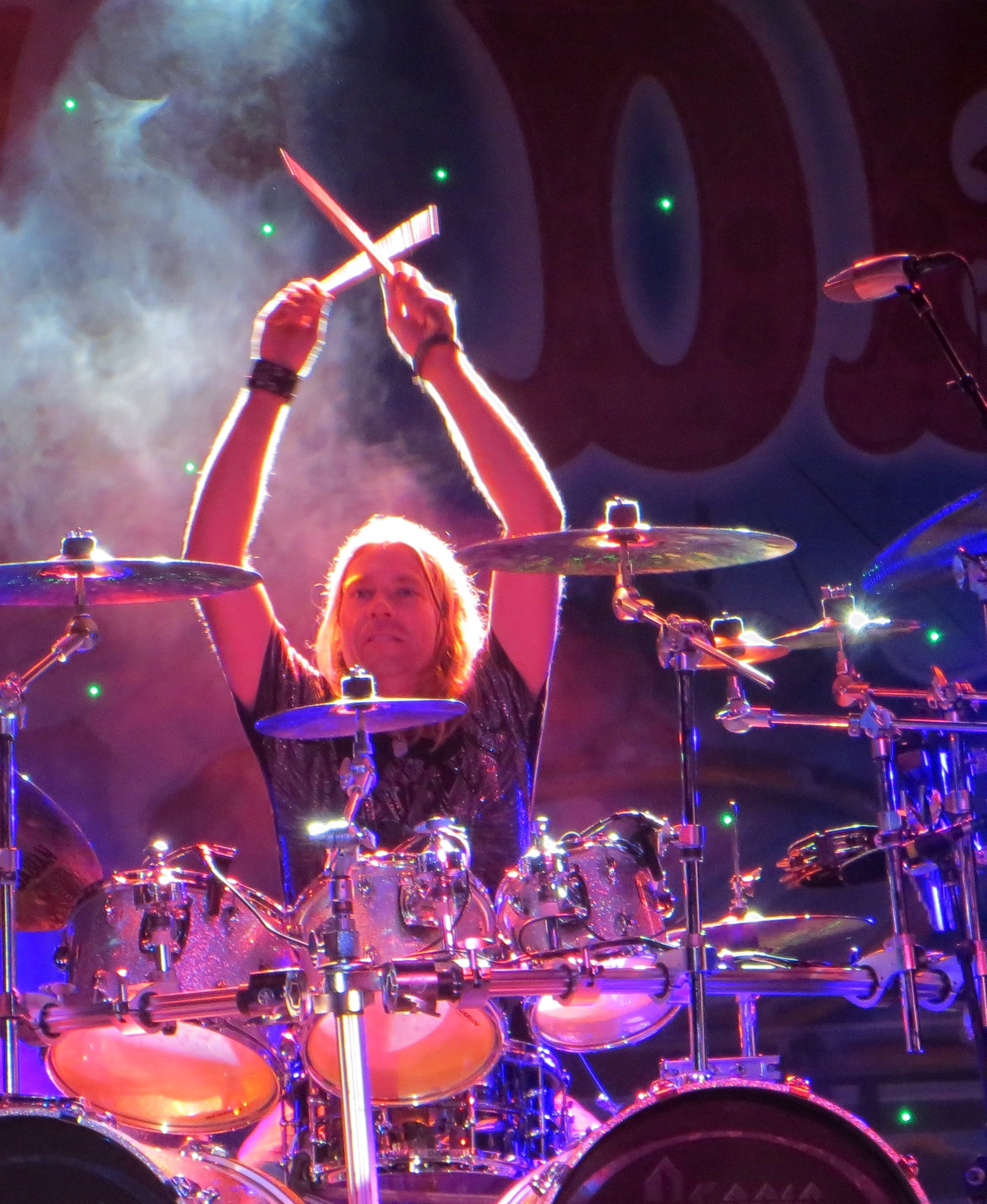 Drummer Tom Sharpe in Maumee, OH.